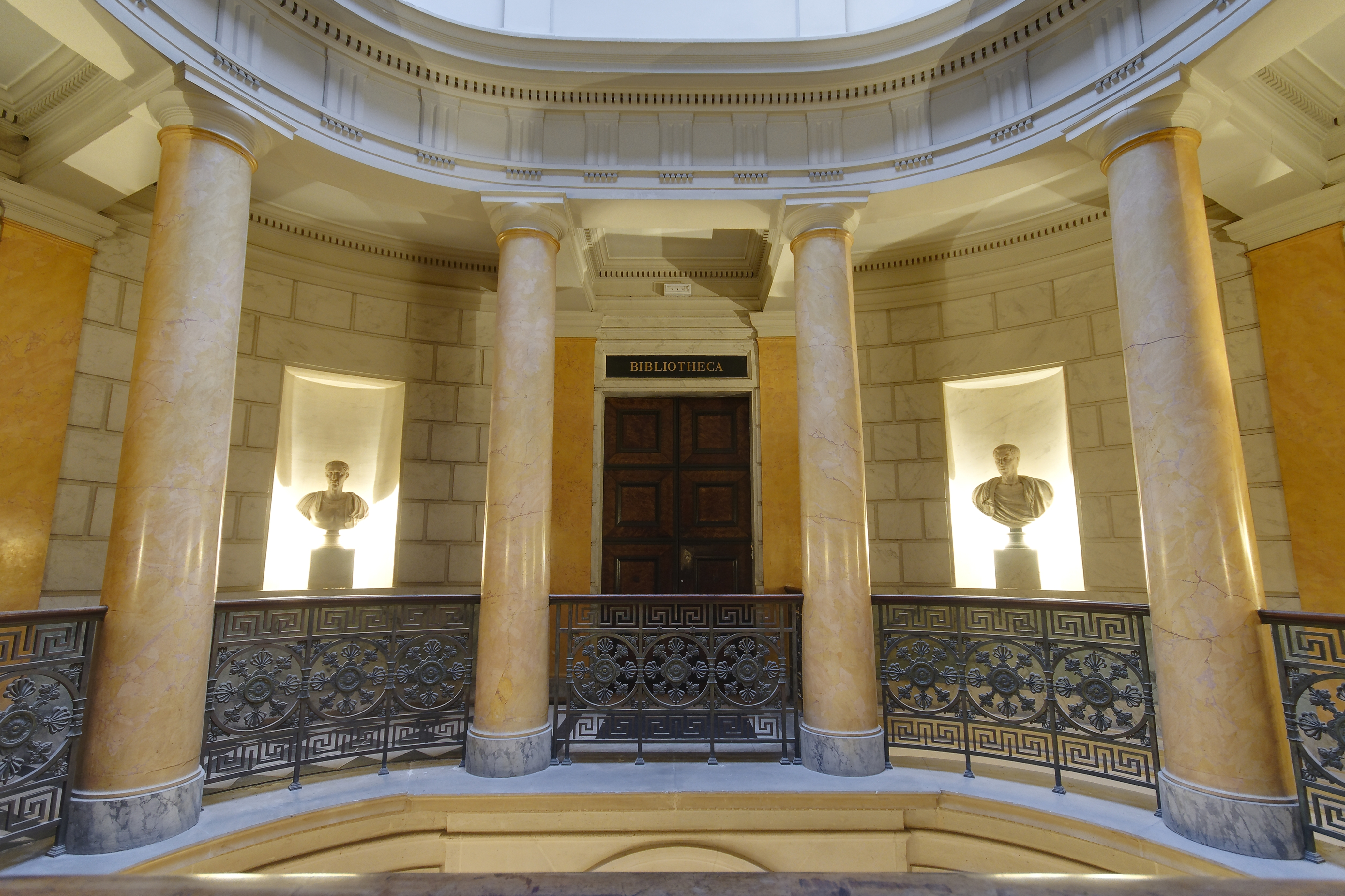 Entry to the Bibliothèque Mazarine, Paris.